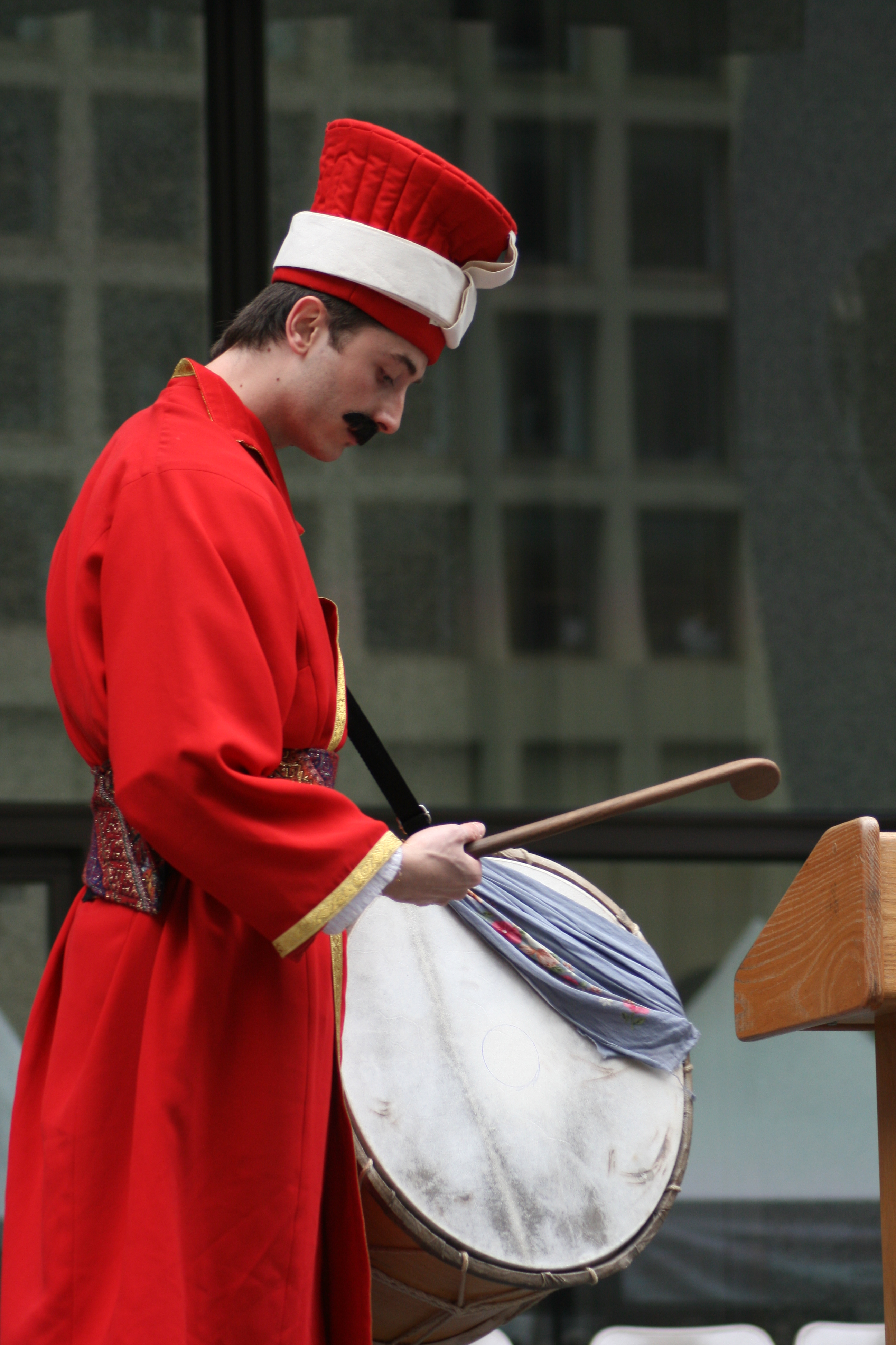 A davul player at Chicago Turkish Festival '09.